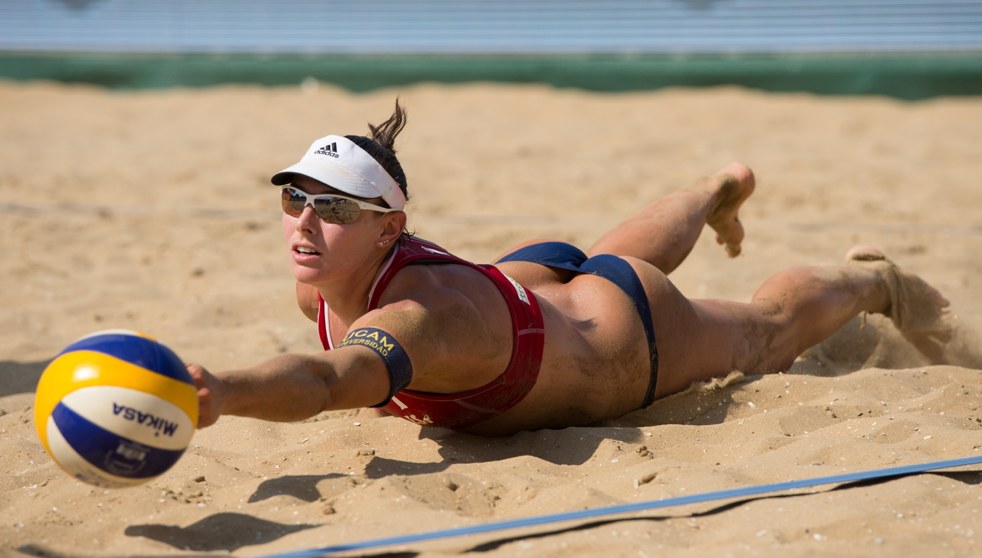 Liliana Fernández -Beach volleyball player from Spain